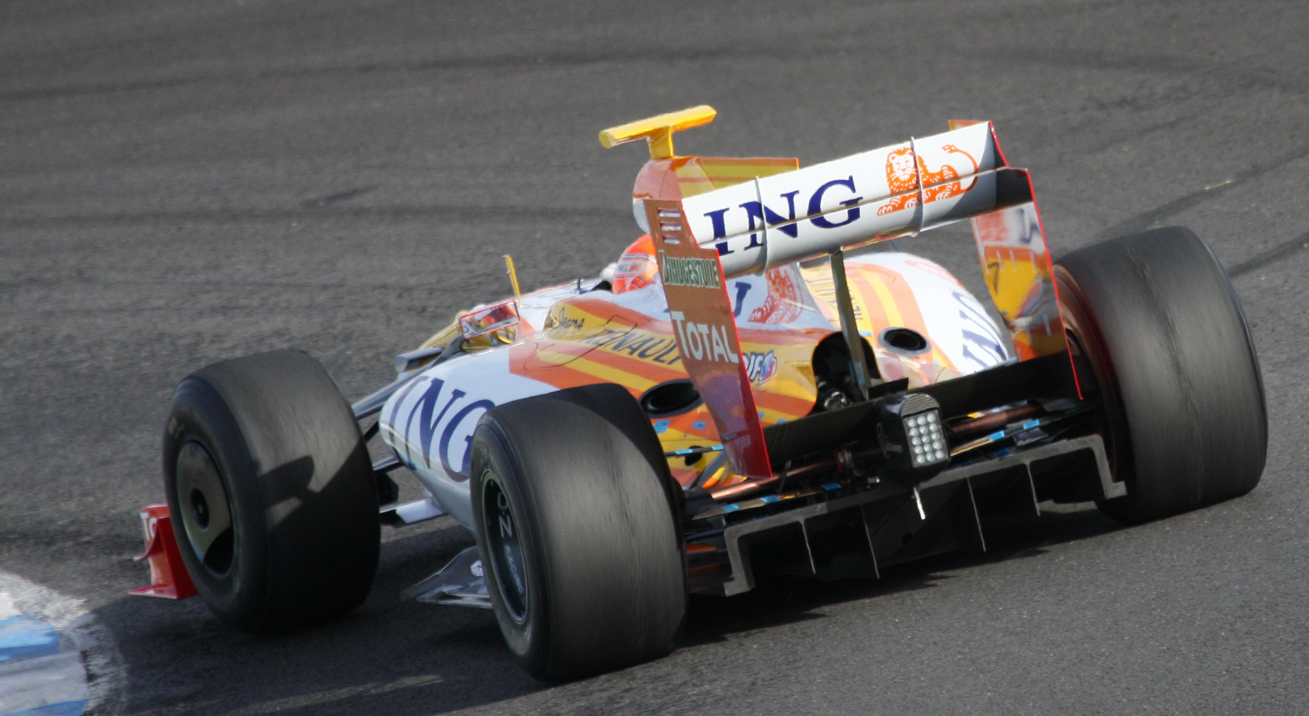 Nelson Piquet Jr in the Renault R29, F1 testing session, Jerez 10-Feb-2009